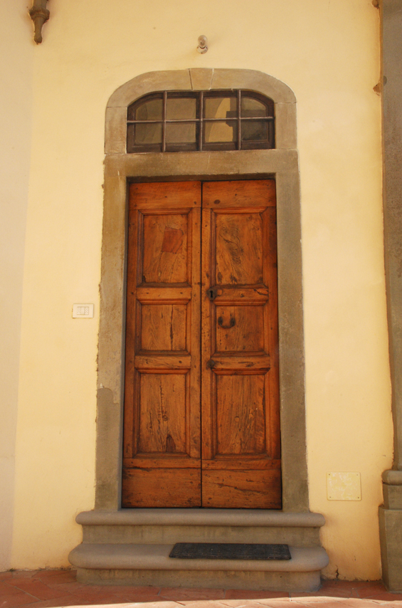 the Church of Santa Maria della Neve al Portico, Florence, Italy. Facade: Door on the right side (under the arcades).